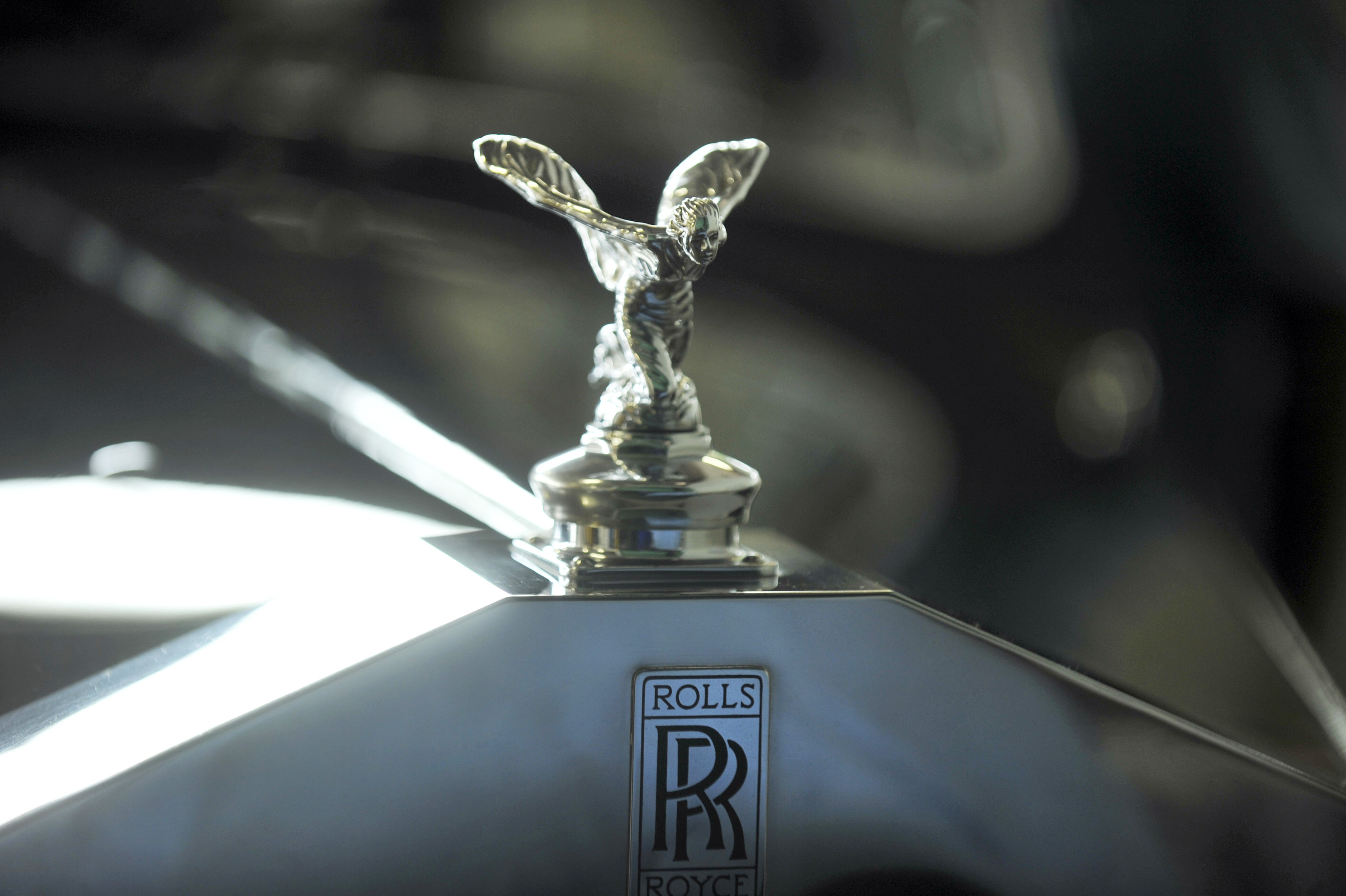 Rolls-Royce Silver Wraith from 1953. Is is the official state car of Brasil for the use of the head of state in certain ceremonies. Of the 3 convertibles made in 1953 this is the only one in existence.